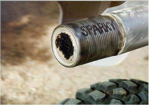 An example of an unapproved spark arrester installed on a motorcycle. It appears to be homemade.